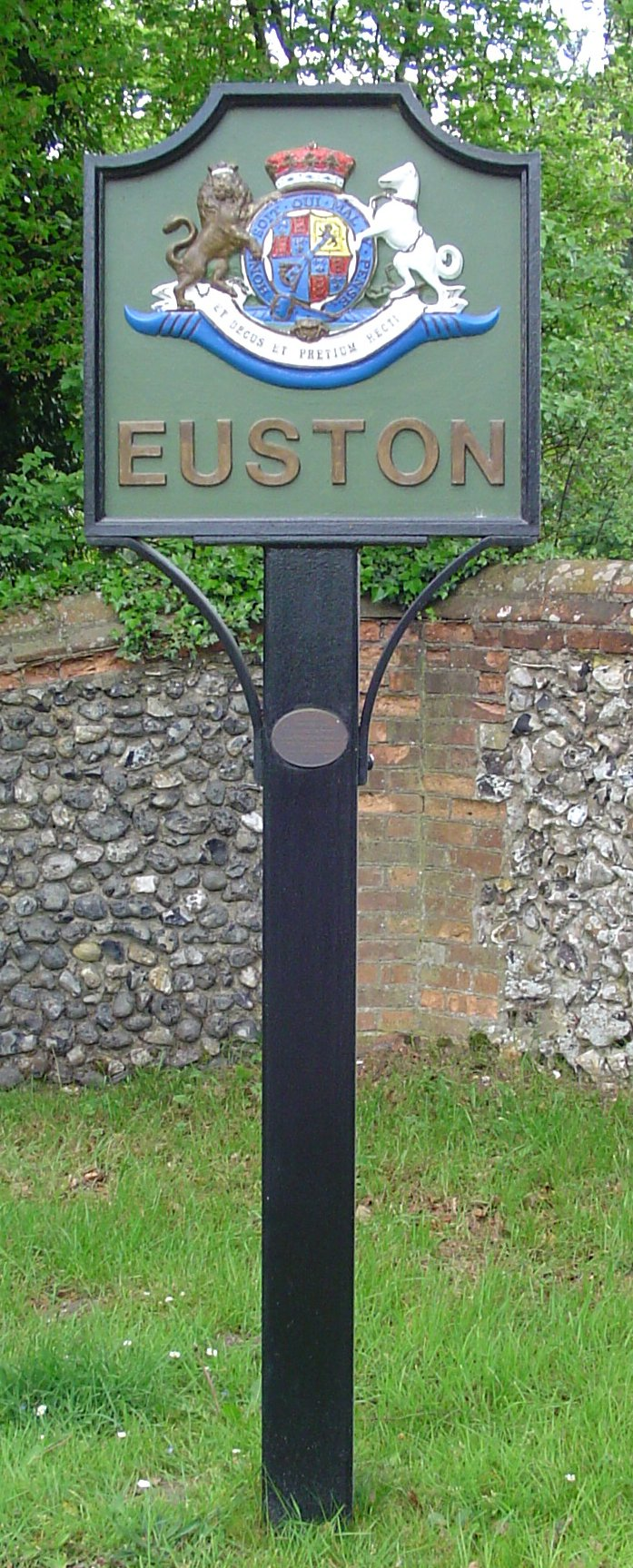 Signpost in Euston, Suffolk